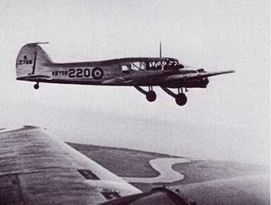 A view of Avro Anson K8758 as seen from Anson K6260. K6260 was equipped with the experimental AI radar, while K8758 was used as a target aircraft. This image was taken while AI research was still being carried out, but before the Fairy Battles replaced the Ansons in that role. This places the photograph some time in 1937.